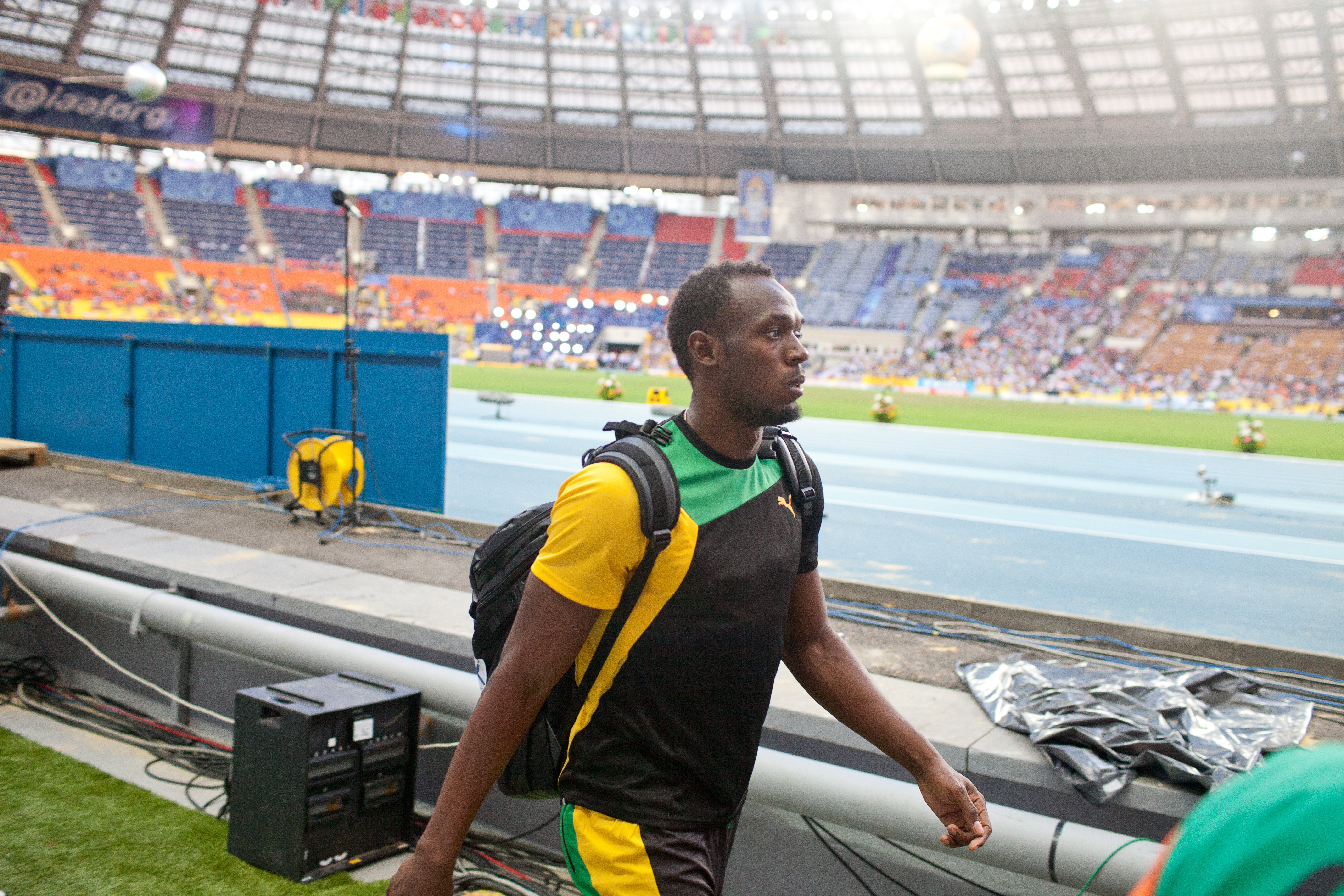 Usain Bolt during 2013 World Championships in Athletics in Moscow.